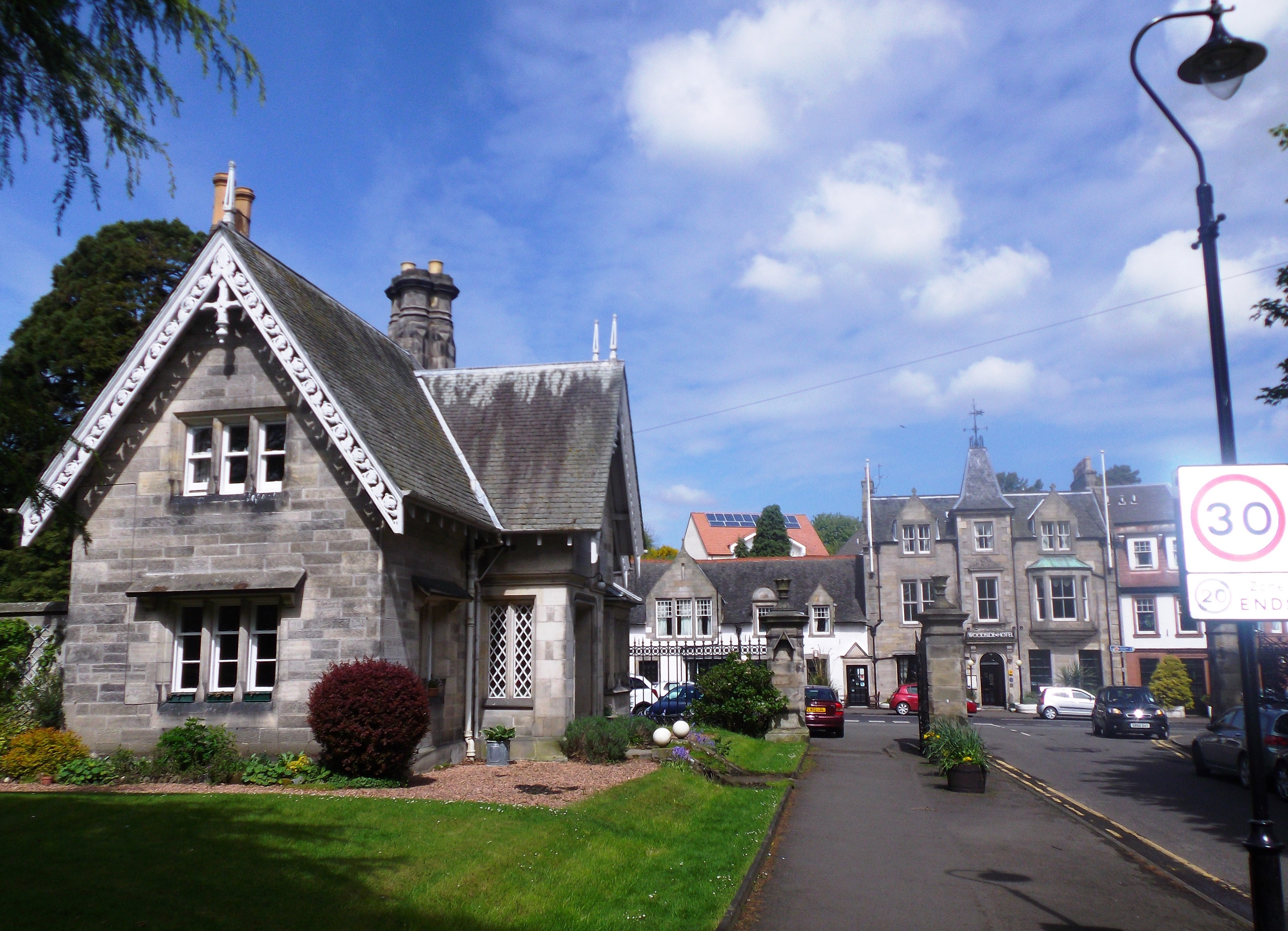 Gatehouse lodge, St Colm House